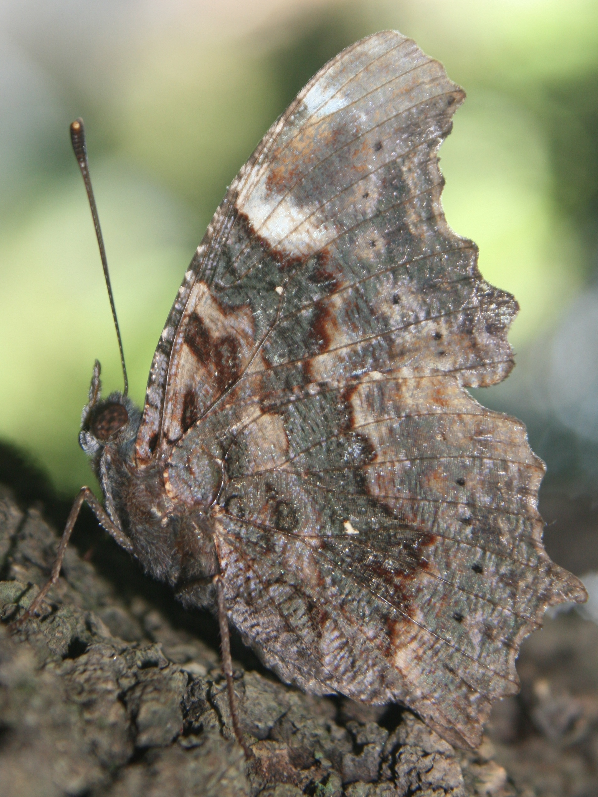 Kaniska canace side